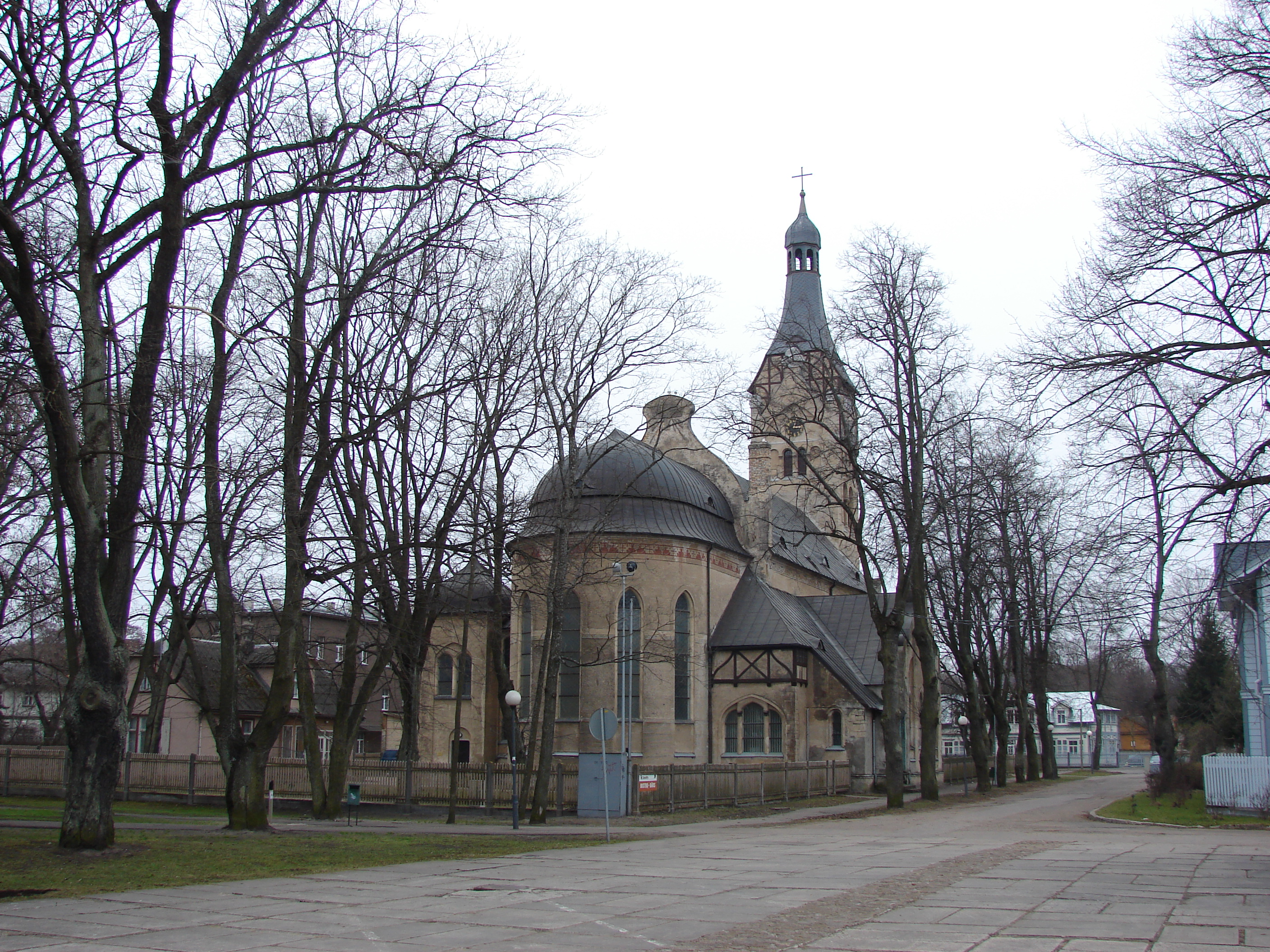 Jūrmala, Dubulti lutheran church